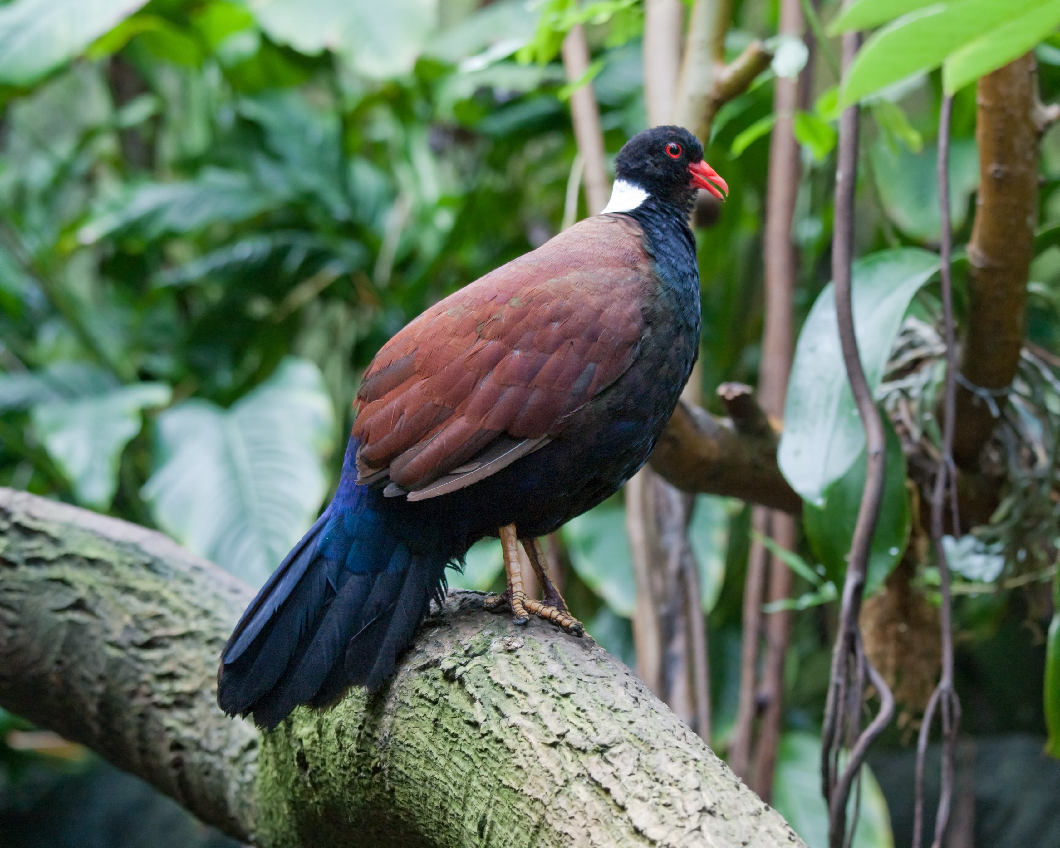 Pheasant Pigeon (Otidiphaps nobilis aruensis) - taken at the Cincinnati Zoo.